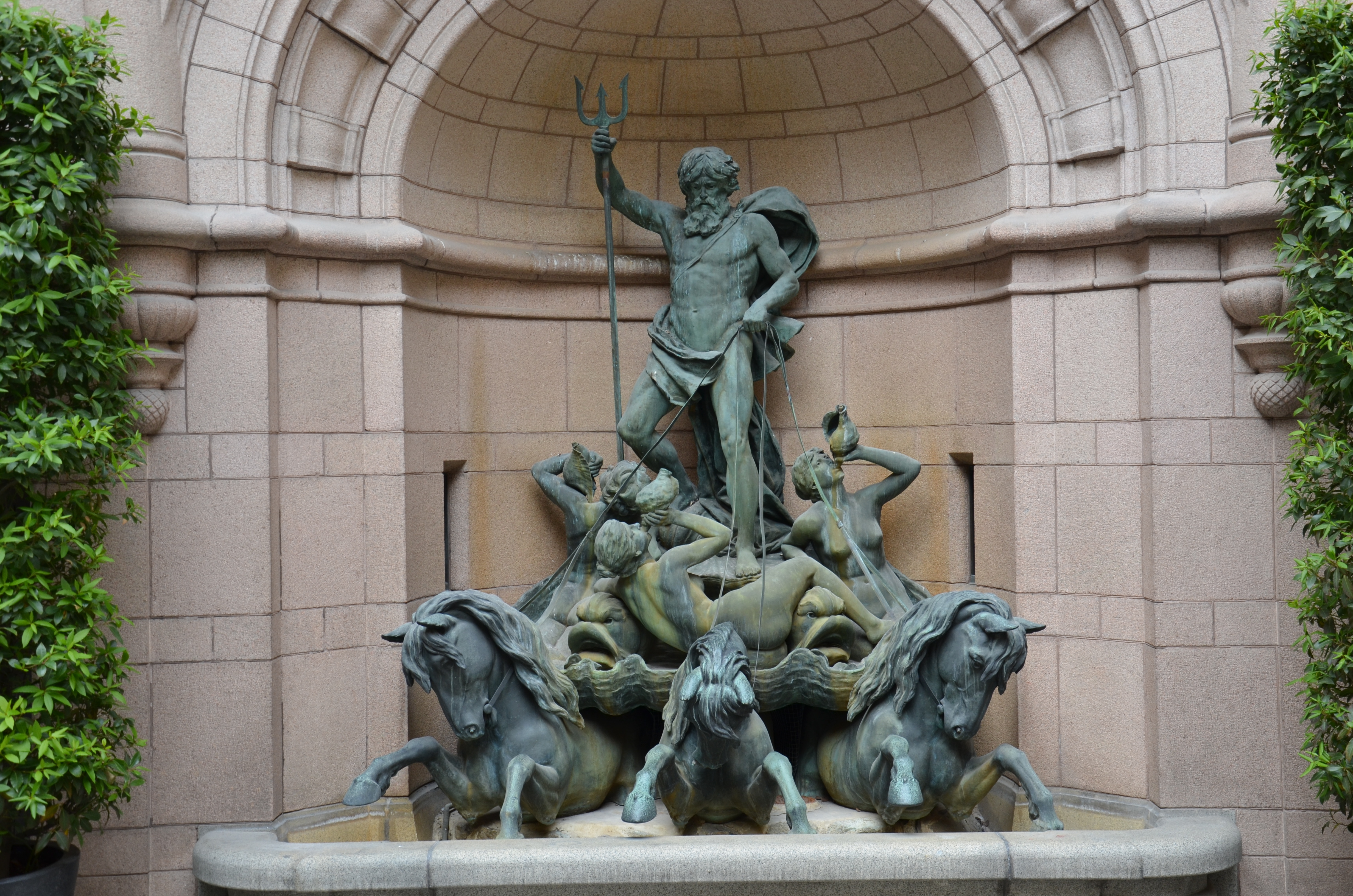 Neptunus, fountain by Gusten Lindberg, 1897-99, Hallwyl House, Stockholm. Fontängrupp